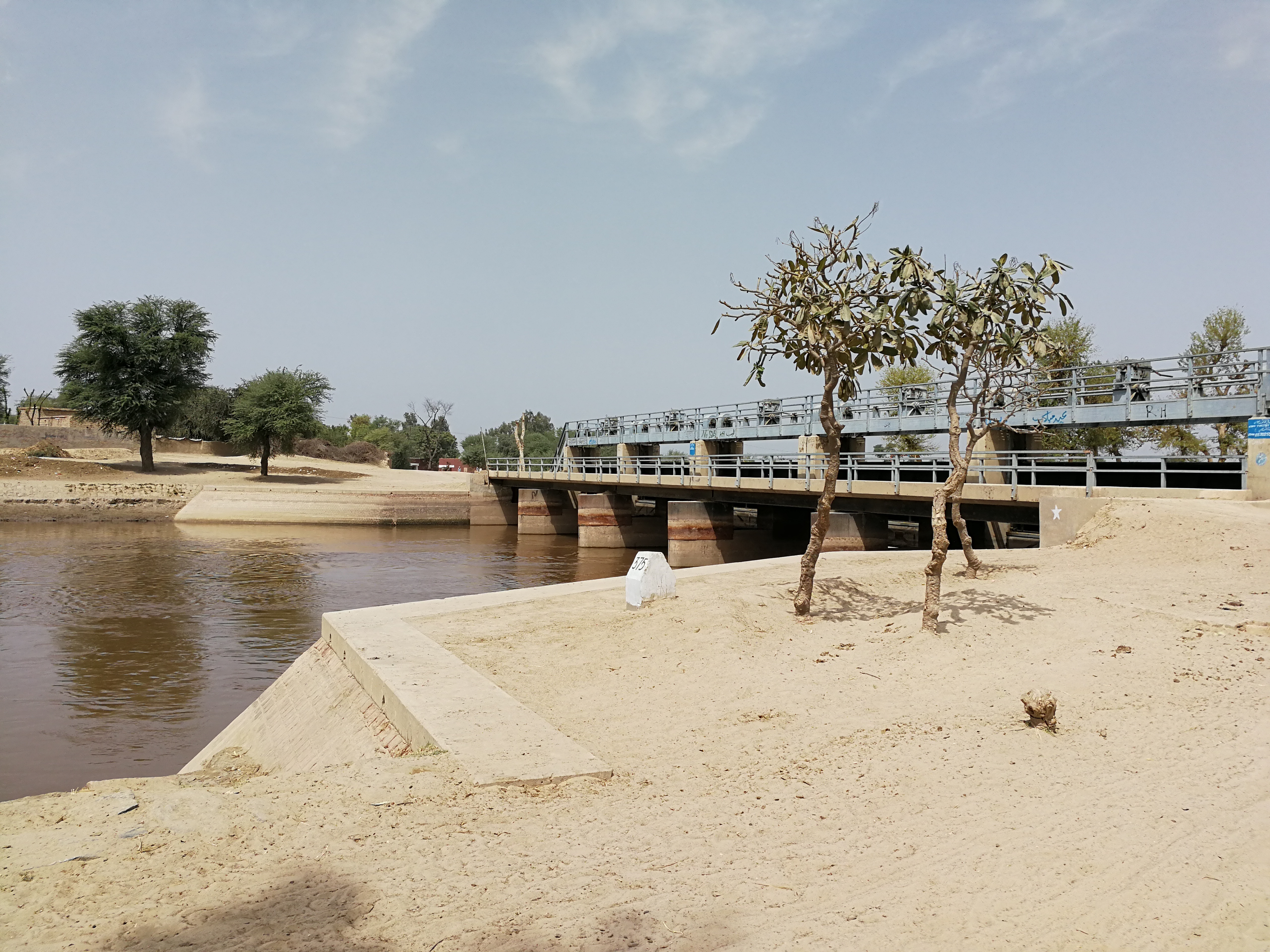 Lake in Khairpur tamewali